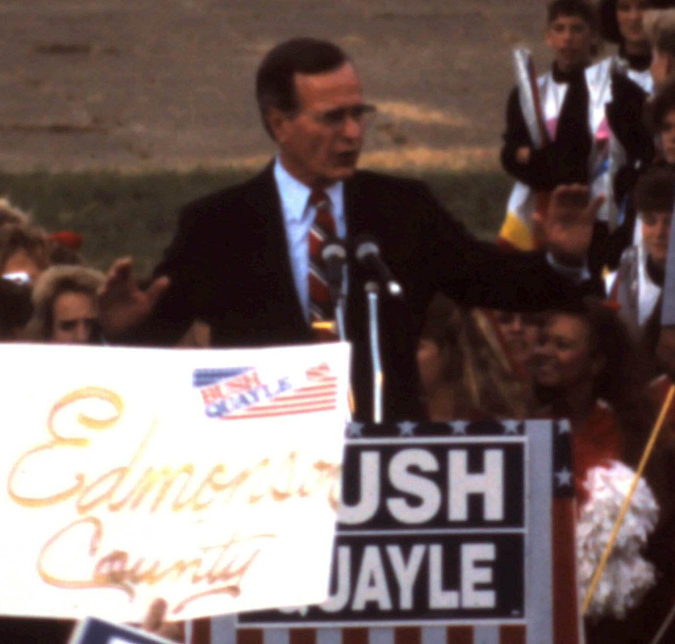 George Bush campaigning for President in 1988 in Owensboro, Kentucky.